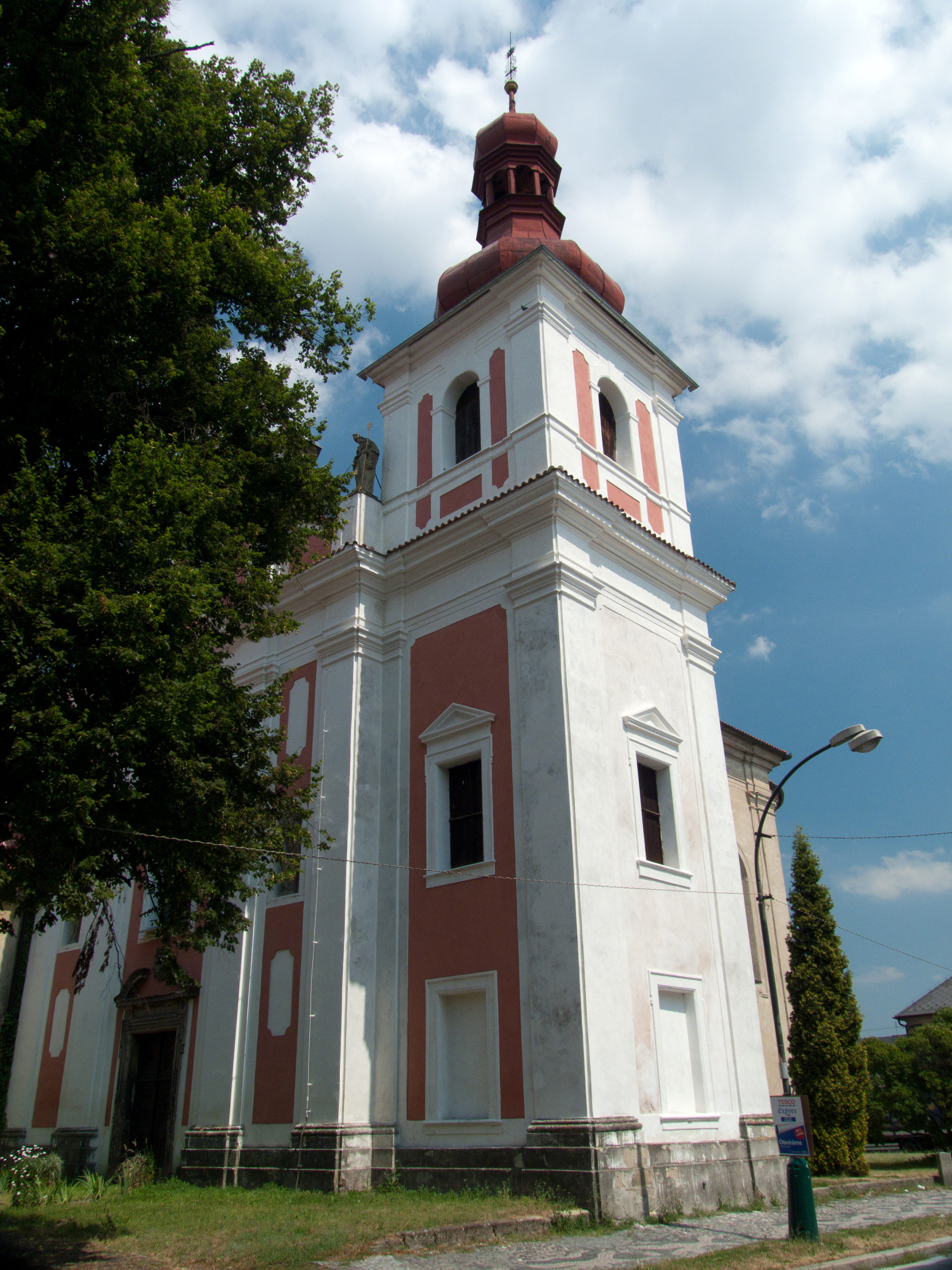 Saint Wenceslaus Church in the town of Bělá pod Bezdězem, Česká Lípa District, Czech Republic as seen from the west